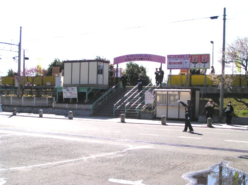 Entrance to the seasonal Kairakuen Station on the Joban Line